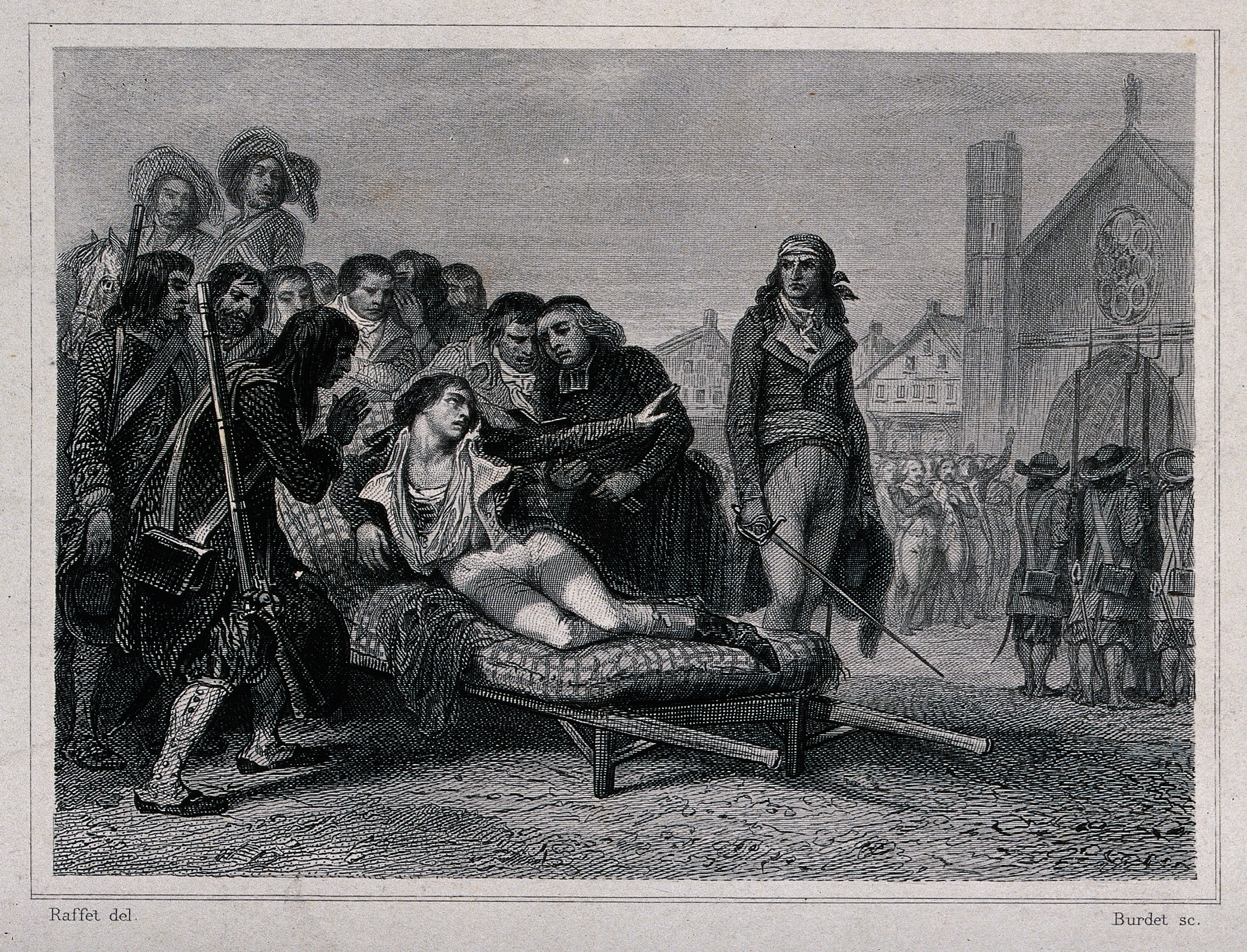 A dying soldier (Bonchamp) lying on a camp bed tended to by a priest. Etching by A. Burdet after A. Raffet. Iconographic Collections Keywords: Denis-Auguste-Marie Raffet; Augustin Burdet